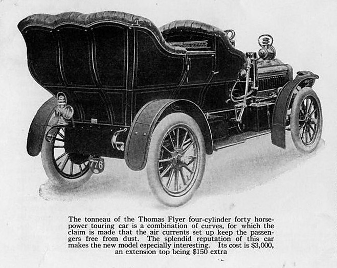 An illustration for an article about 1905 Automobiles. Shown is the Thomas Flyer Model 25 5/7 seat touring. The Thomas Flyer gained fame after this race: "The Competitors This truly world class event included National Teams from France, Italy, Germany and the United States. The New York to Paris Automobile Race was to be driven across the frozen Bering Straits in the dead of winter 1908. All this at a time when horses were considered more reliable than automobiles " The Race The Race was sponsored by the NEW YORK TIMES and the LA MATIN (a Paris newspaper). The torturous New York to Paris Race route: NYC, Albany, Chicago, San Francisco, Seattle, Valdez Alaska, Japan, Vladivostok, Omsk, Moscow, St. Petersburg, Berlin and finally Paris. The Thomas Flyer Team covered three continents and over 22,000 miles in 169 days. The Race was ultimately won by the American Thomas Flyer driven by George Schuster Sr. of Buffalo, NY. The feat has never been equaled. They still hold the world record nearly 100 years later!" The above is from a web site that I found fascinating: . The Competitors This truly world class event included National Teams from France, Italy, Germany and the United States. The New York to Paris Automobile Race was to be driven across the frozen Bering Straits in the dead of winter 1908. All this at a time when horses were considered more reliable than automobiles. The Race The Race was sponsored by the NEW YORK TIMES and the LA MATIN (a Paris newspaper). The torturous New York to Paris Race route: NYC, Albany, Chicago, San Francisco, Seattle, Valdez Alaska, Japan, Vladivostok, Omsk, Moscow, St. Petersburg, Berlin and finally Paris. The Thomas Flyer Team covered three continents and over 22,000 miles in 169 days. The Race was ultimately won by the American Thomas Flyer driven by George Schuster Sr. of Buffalo, NY. The feat has never been equaled. They still hold the world record nearly 100 years later.